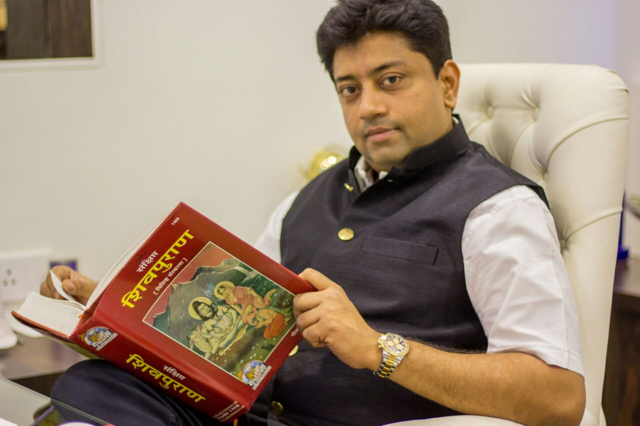 Son of Mr.Kamal Narayan Seetha